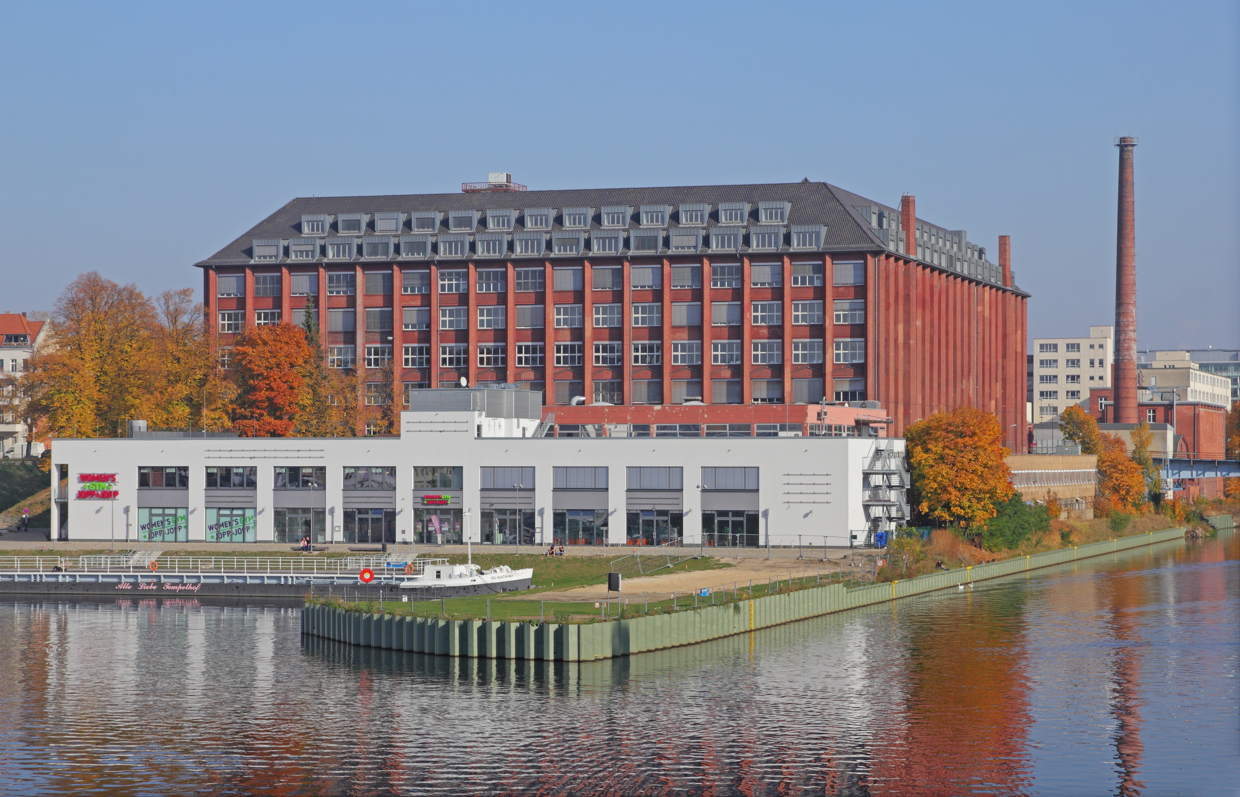 Berlin-Tempelhof. Tempelhof Harbour on the Teltow Canal.